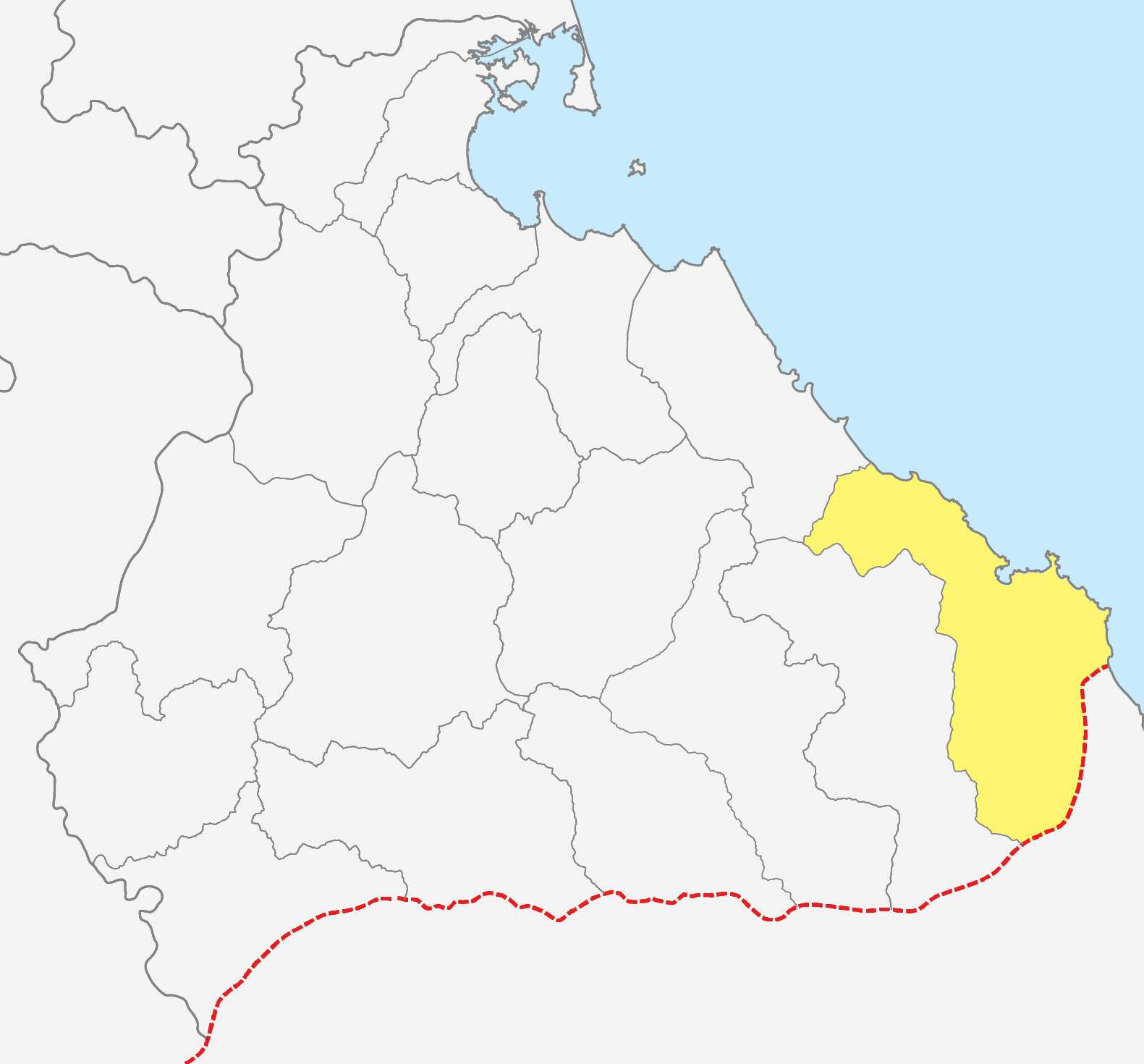 Map of Goseong-Gun(North Korea)